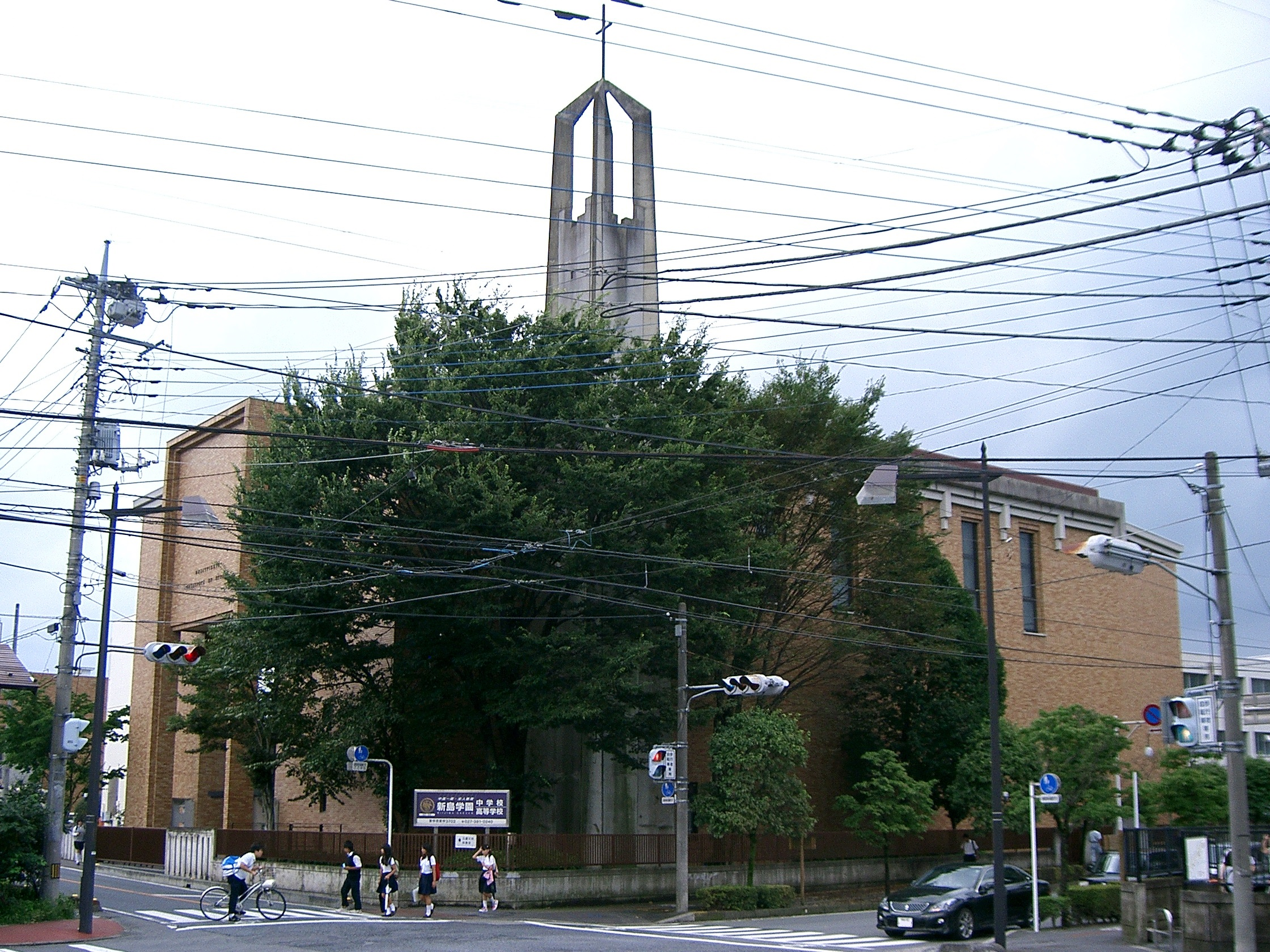 Chapel of Niijima Gakuen Junior and Senior High School